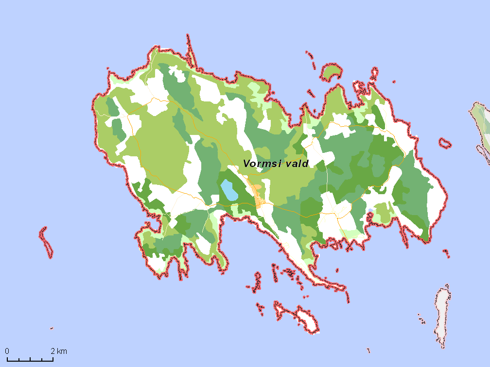 Map of municipality in Estonia